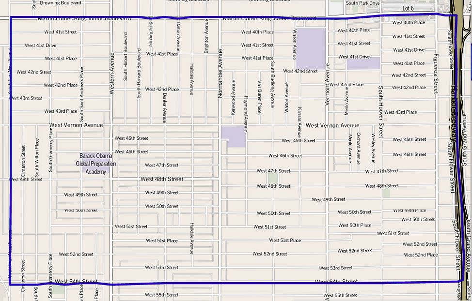 Map of Vermont Square, as outlined by the Los Angeles Times on a CC-by-SA background. Other information Boundary map as drawn by the Los Angeles Times on a CC-by-SA background. Note at bottom right of map on the L.A. Times website noted above says "CC-by-SA" (which gives permission to use the map). There is a link there to which explains the meaning thereof. The base map is credited to The Times spells all this out at